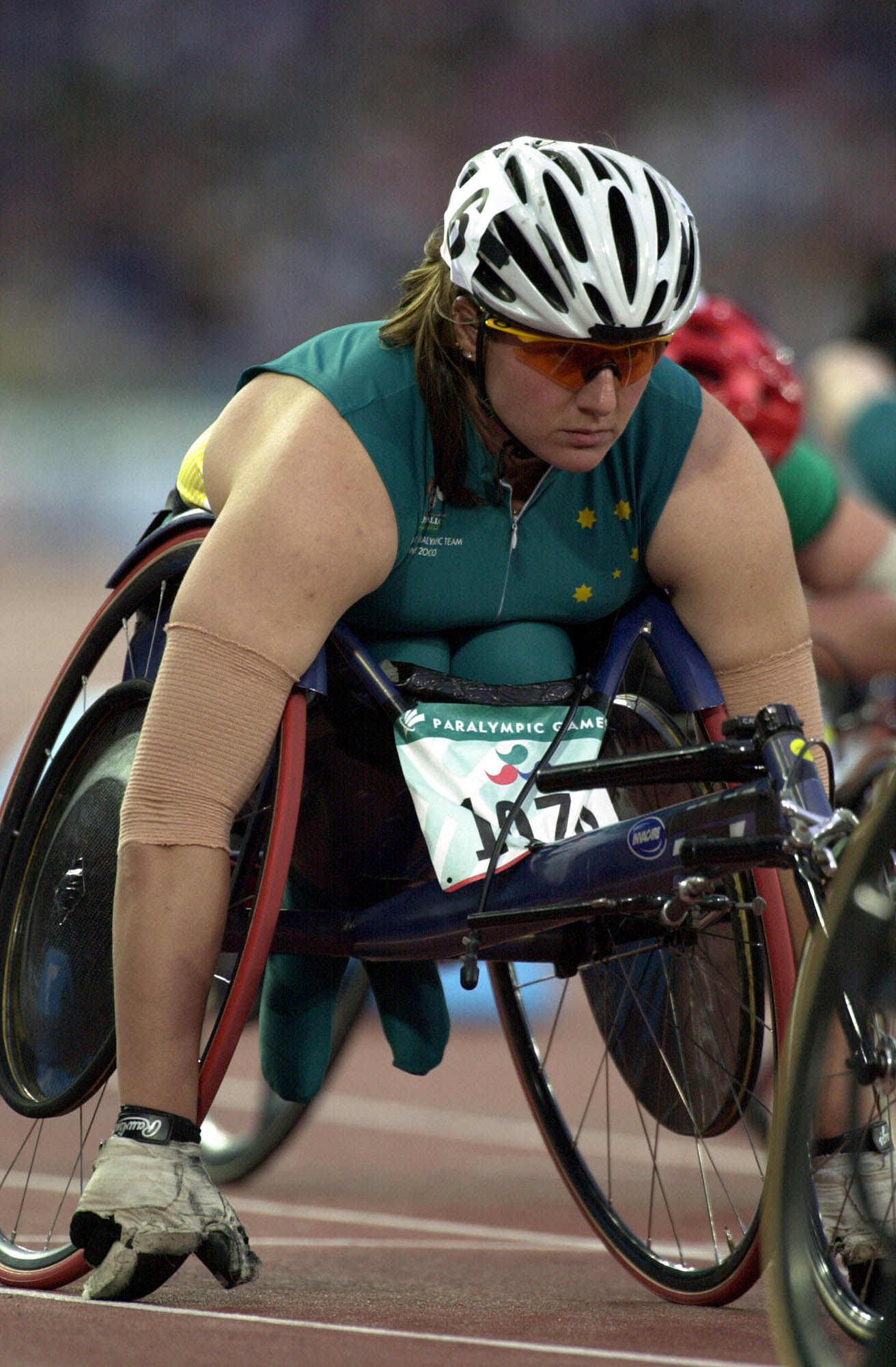 Australian wheelchair racing athlete Louise Sauvage shown concentrating pre race at the 800 m T54 final, 2000 Sydney Paralympic Games, Day 04. Sauvage went on to win silver in this event.